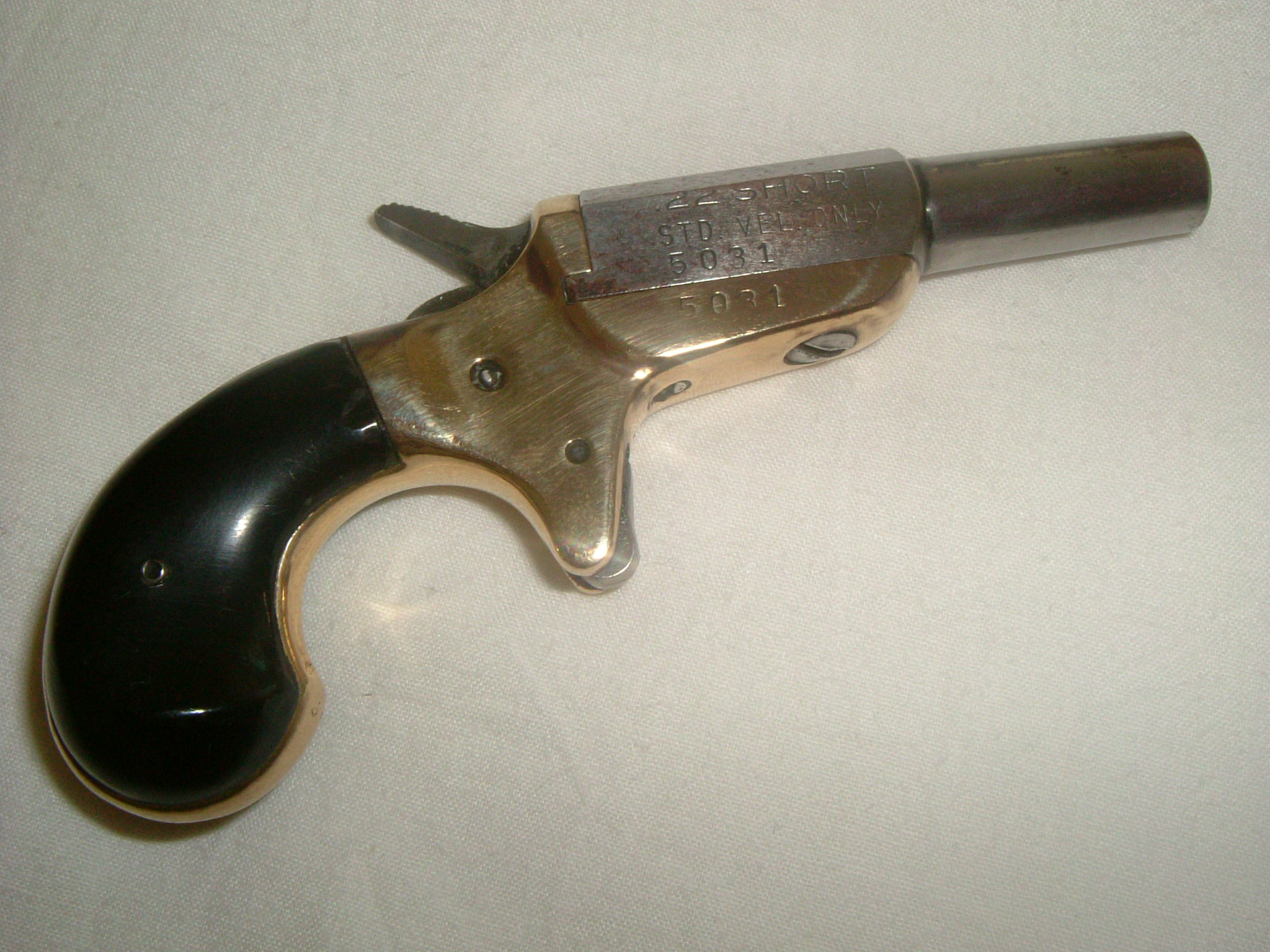 Derringer - Photo taken with a flash